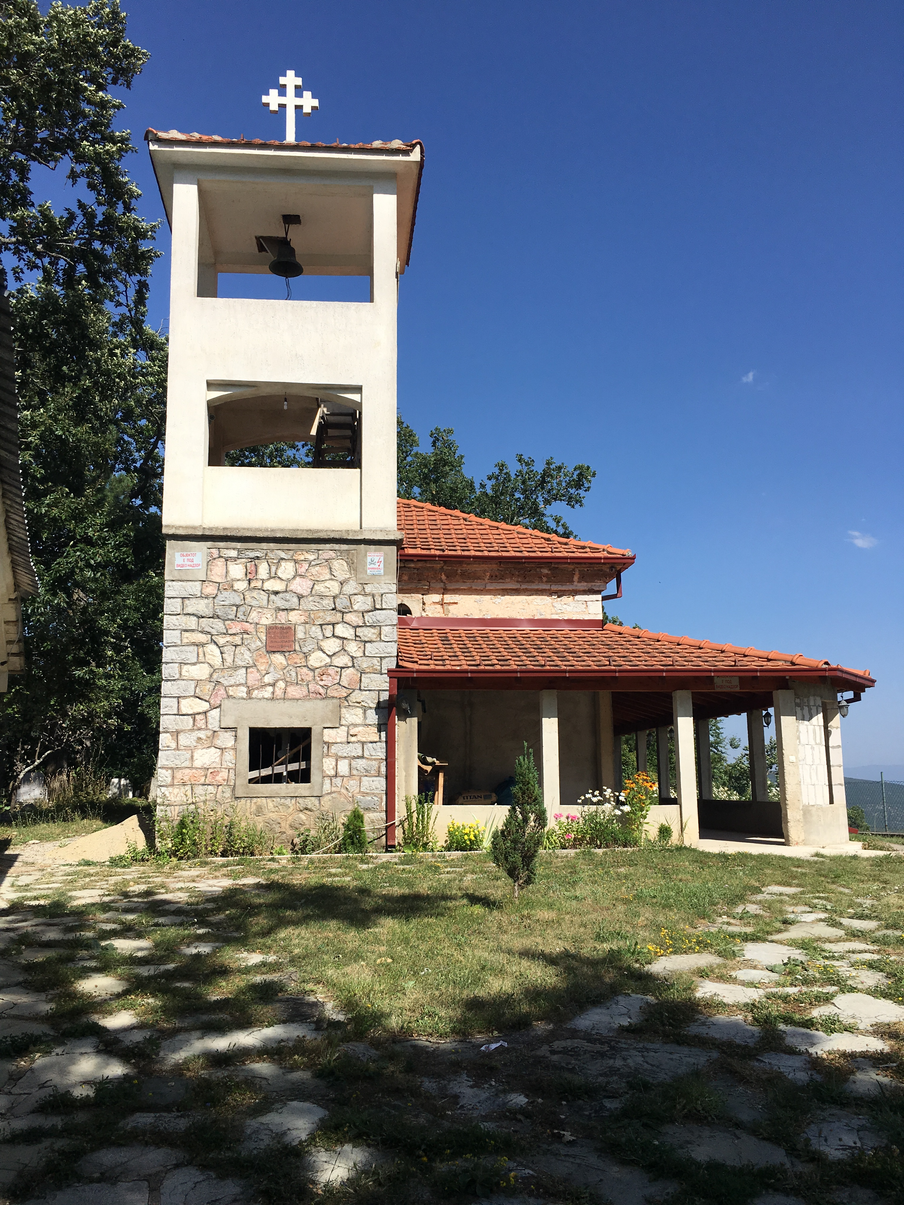 View of the Dormition of the Theotokos Church in the village Boroec